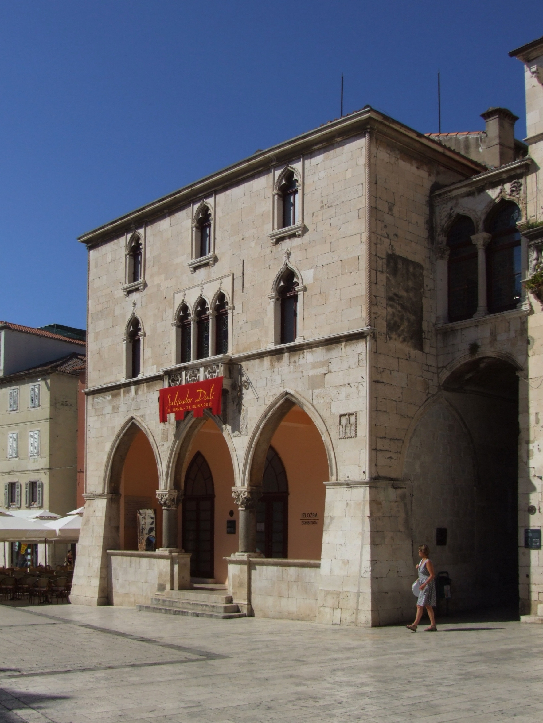 Split - Former Ethnographic Museum (to 2004) and Former City Council